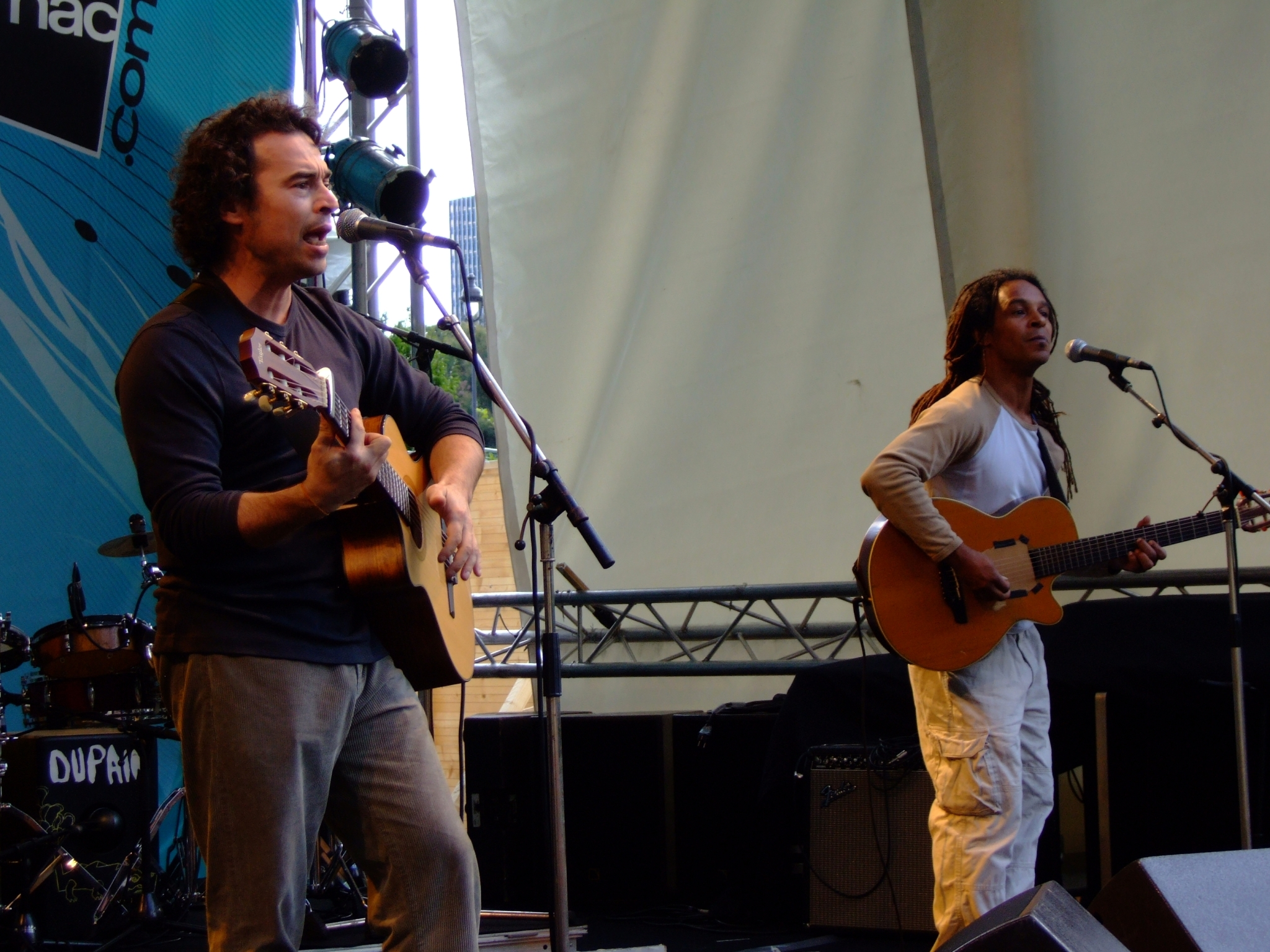 Jehro (Jérôme Cotta) french singer from Marseille. In concert on bankside from Seine in Paris